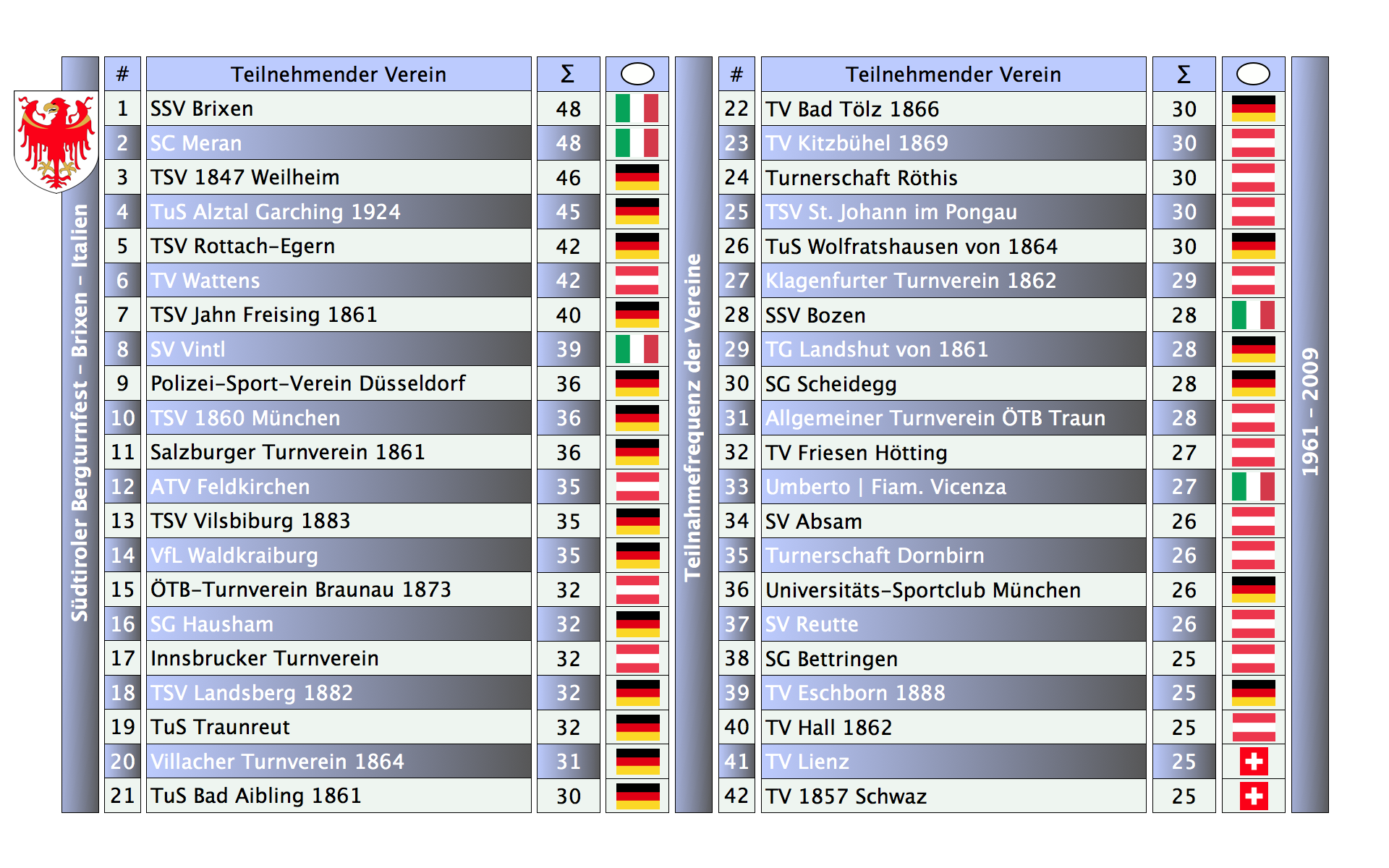 Participation Frequency Clubs, Sudtiroler Bergturnfest, Brixen, South Tyrol, Italy